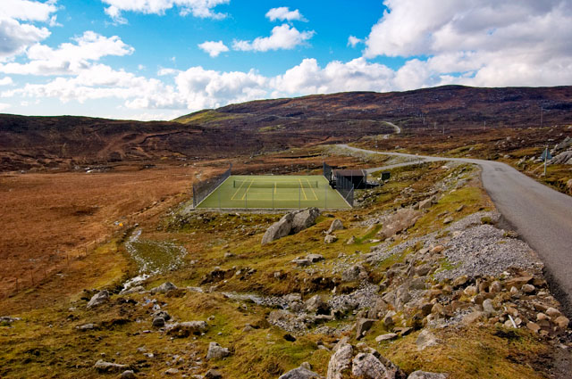 B887 road to Hushinish. The B887 leaves the main Tarbert to Stornoway road a few miles north of Tarbert and heads west to Hushinish over switchback terrain. One of the great surprises on this road is this artificial tennis court which can be hired by the hour - there is not a habitation is sight!